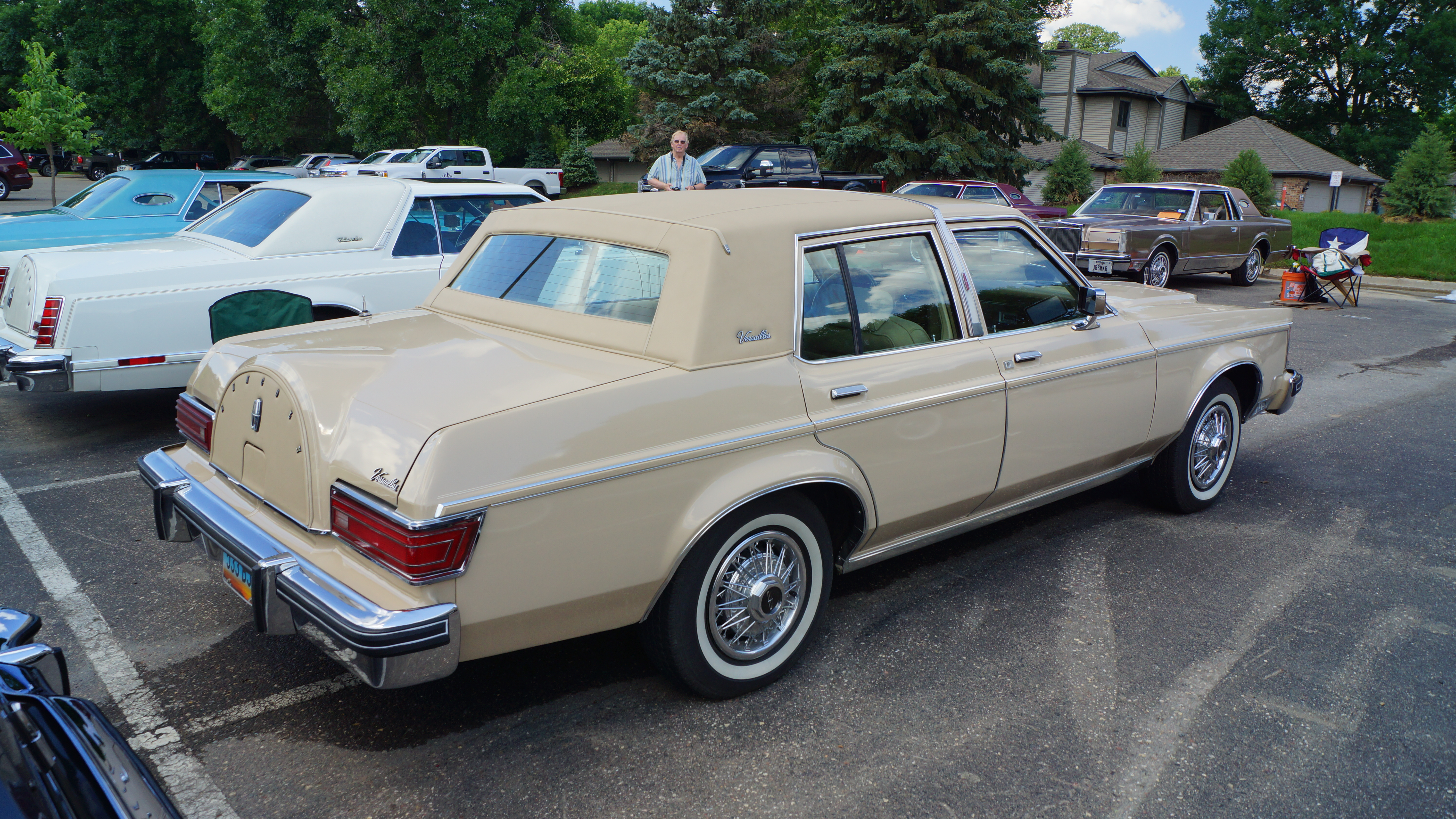 Rear 3/4 view of a 1979 Lincoln Versailles four-door sedan